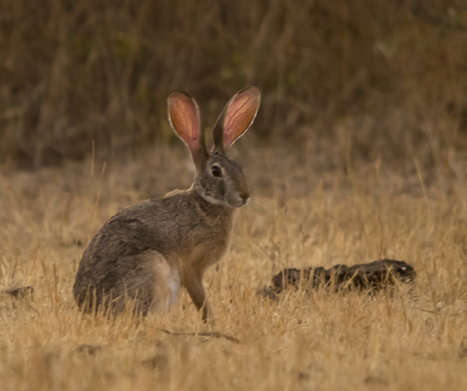 in Grassland habitat